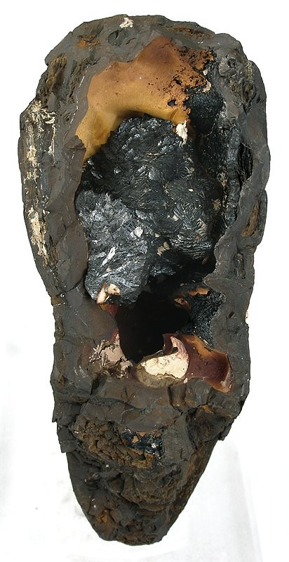 Groutite Locality: Emilie Mine (Bülten-Adenstedt Mine), Peine, Lower Saxony, Germany (Locality at ) Size: 11.1 x 5.6 x 5.4 cm. This is an outstanding specimen of crystallized groutite in huge crystals and in a rich quantity, as well. The cluster of crystals measures 3.5 x 3 cm and fills half of a hollow vug inside this manganese nodule (part remains packed with hardened kaolin clay). The overall specimen is important for the species, but also interesting for the environment, and how it shows the crystals formed inside a hollowed nodule of the manganese. Groutite seldom forms such large crystals, nor such rich masses.